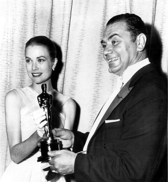 Photo of Ernest Borgnine receiving academy award for Marty from Grace Kelly